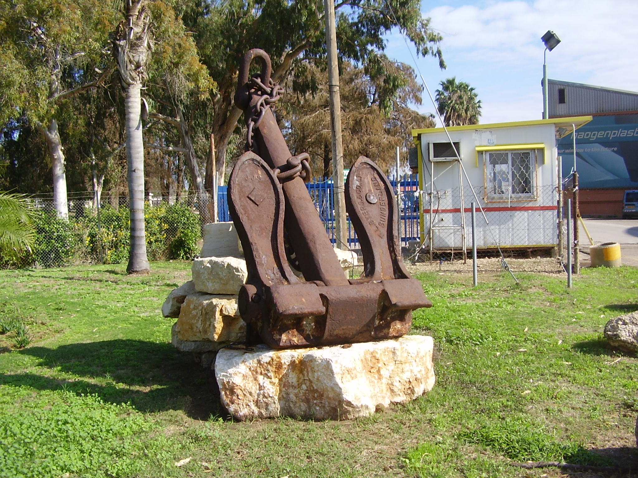 an anchor at the entrance to kibbutz ha\'ogen